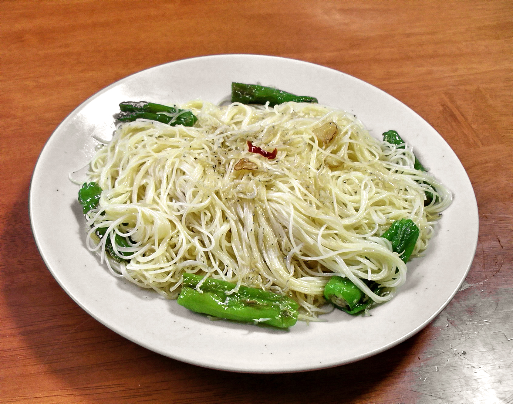 capellini with shishitougarashi (Japanese peppers) and shirasu (whitebait)しらすスパゲティ